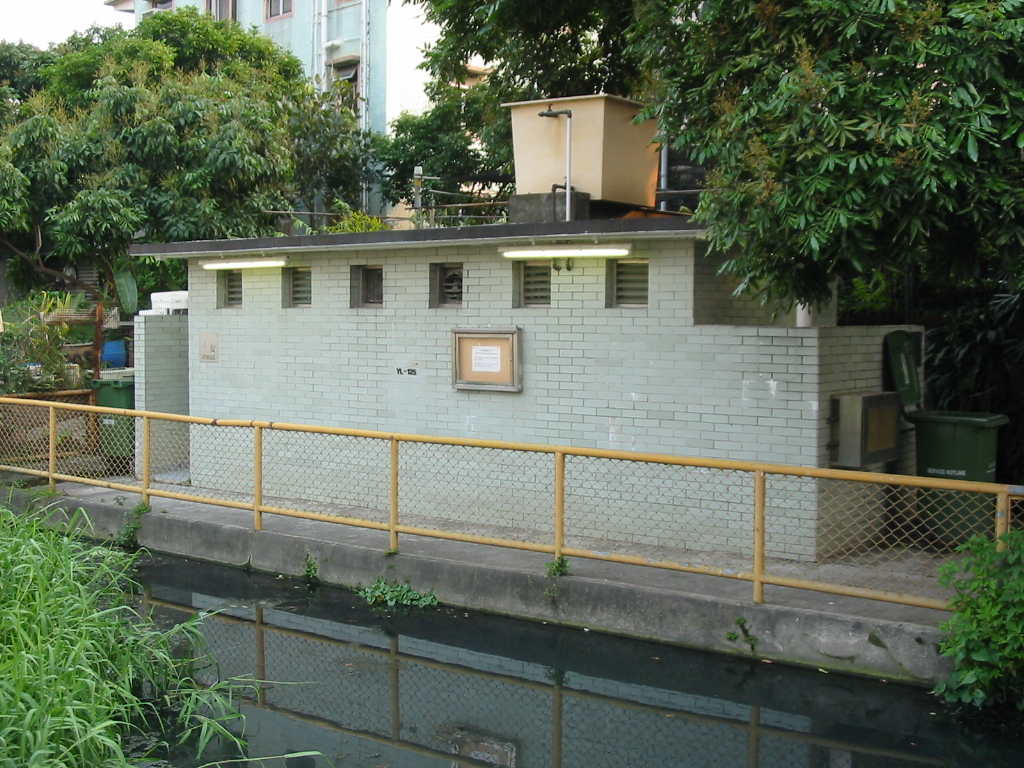 An aqua privy (pit toilet) in Tung Tau Tsuen, Ha Tsuen Heung